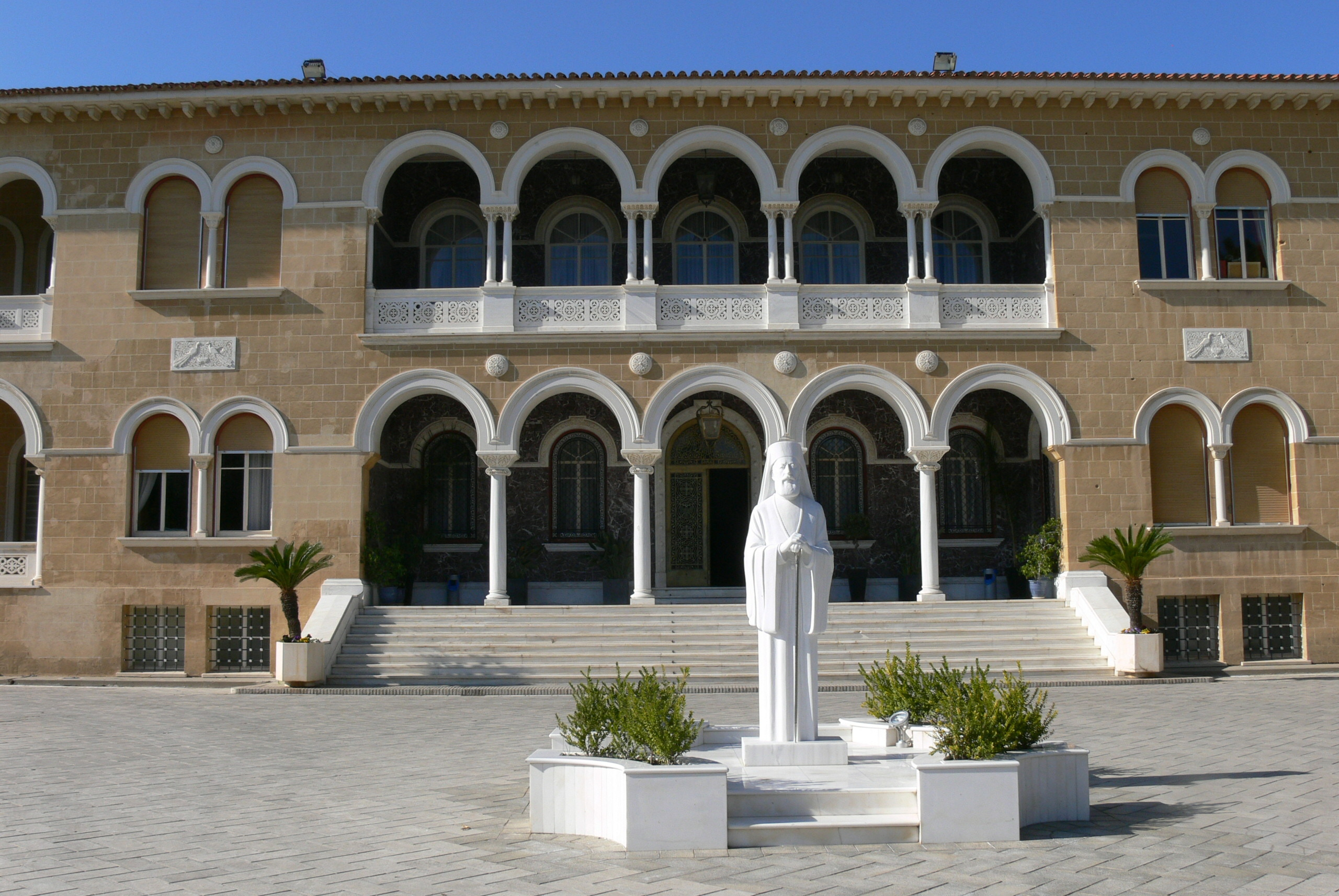 Nicosia ( Cyprus ). Palace of the archbishop with statue of archbishop Makarios.